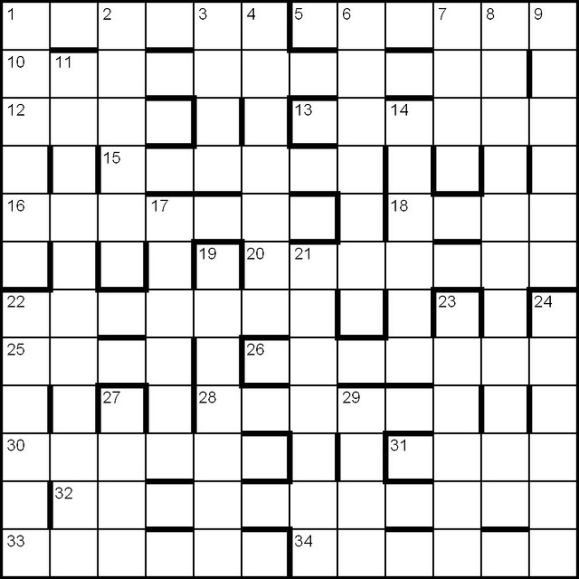 Example of a Barred Grid Crossword grid where bars are used instead of blocks to denote separation between words